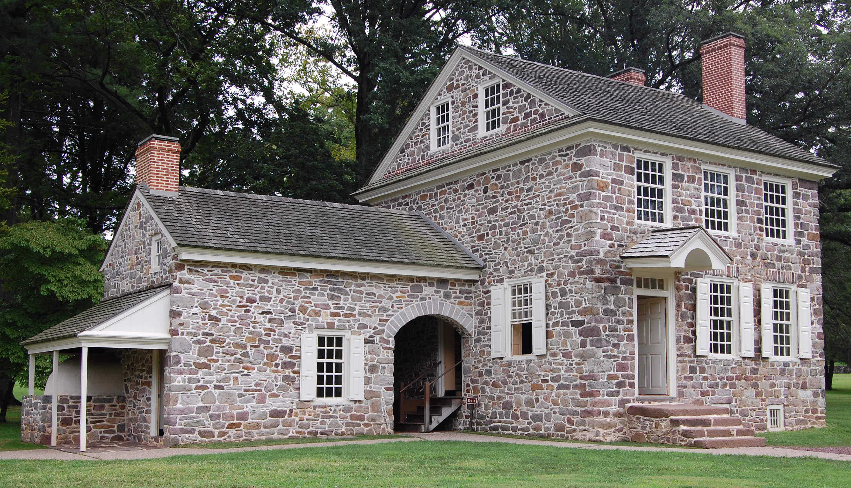 The headquarters of George Washington at the Valley Forge encampment - 1777 to 1778; Valley Forge National Historical Park. Other information Photo credit: . Publication